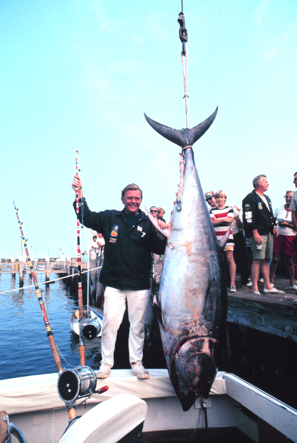 A proud fisherman with his catch at the United States Atlantic Tuna Tournament Image ID: fish1316, NOAA's Fisheries Collection Location: Point Judith, Rhode Island